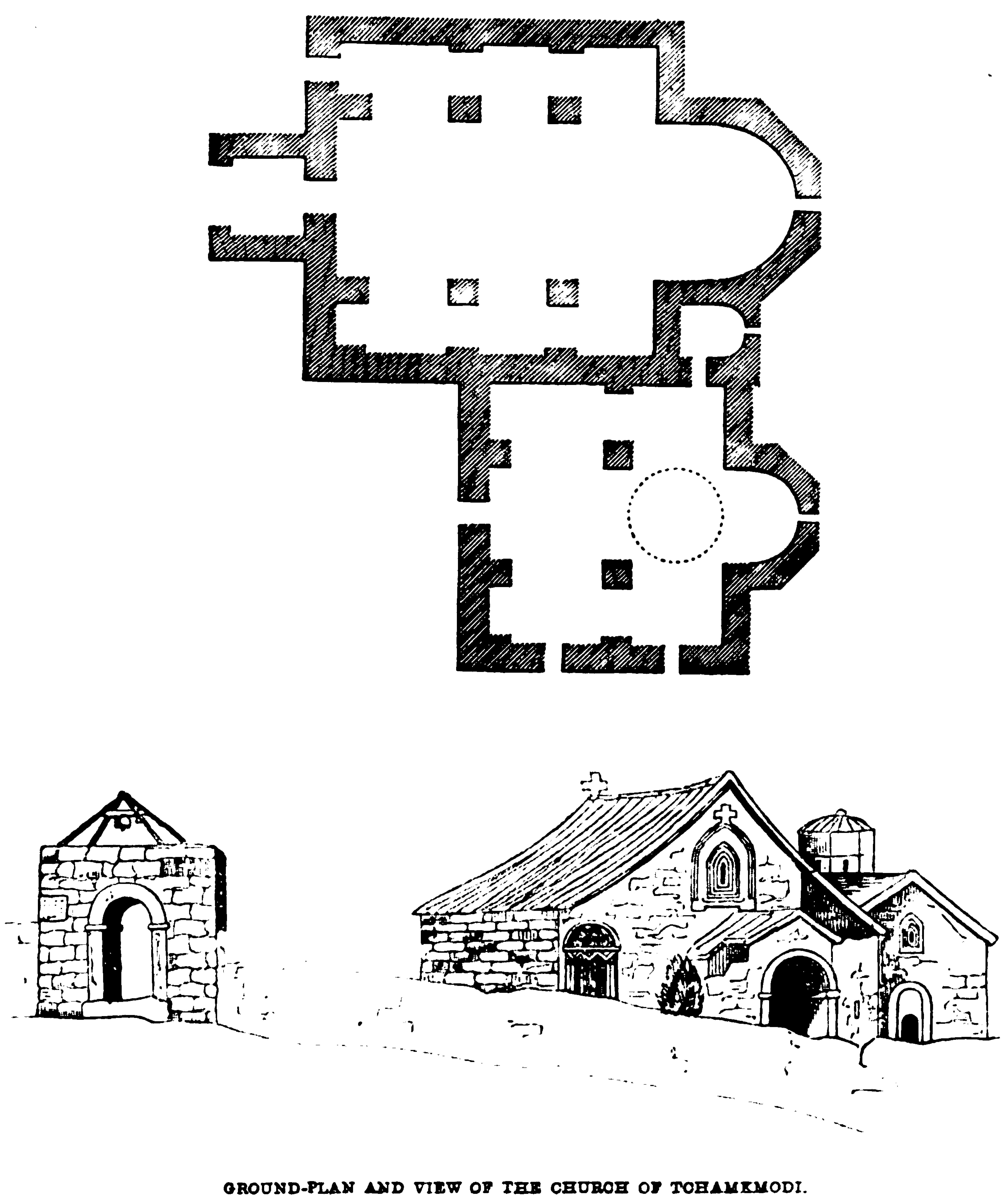 A history of the Holy Eastern Church: General introduction, Volume 1